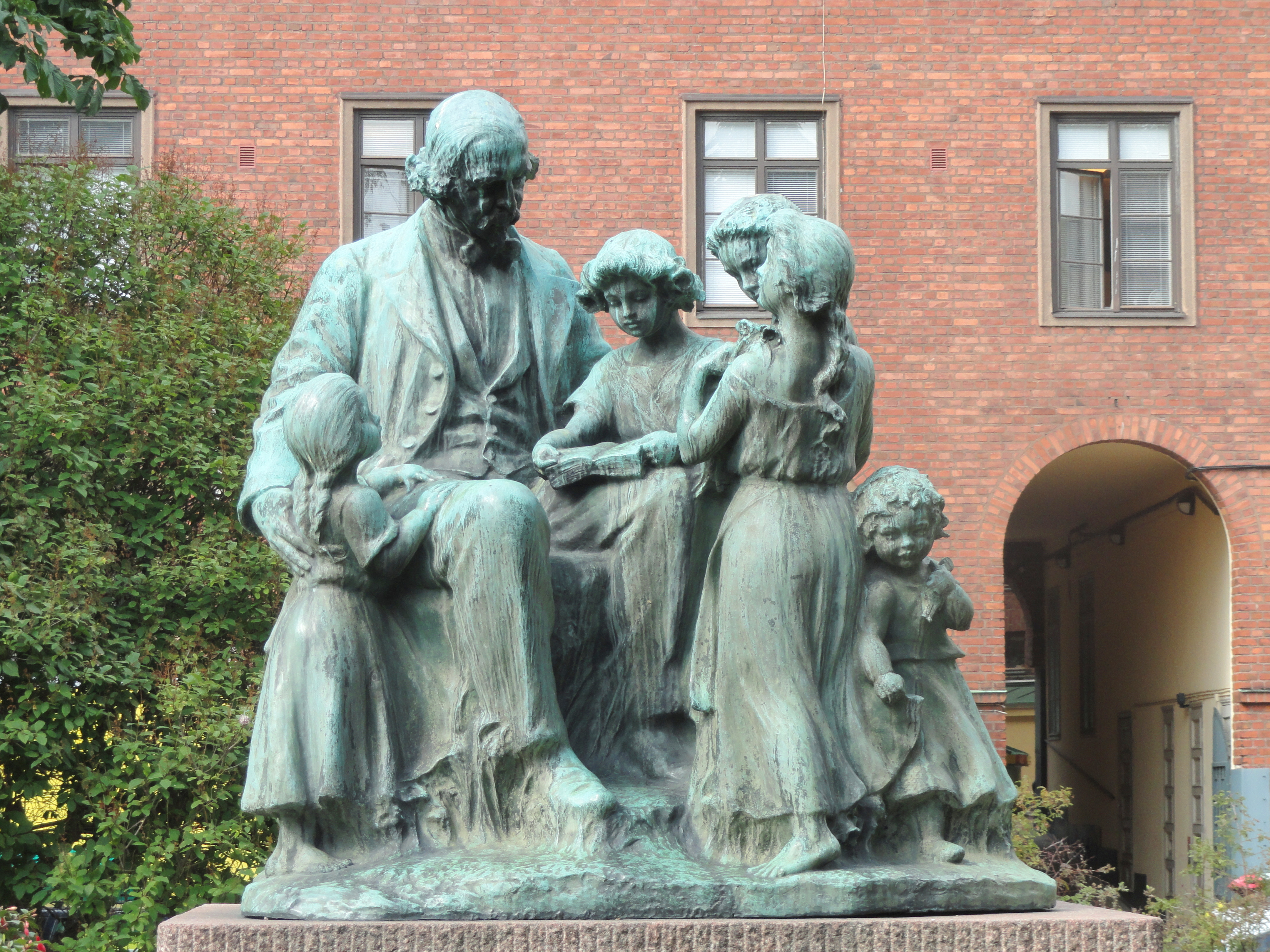 Topelius and children by Ville Vallgren, Helsinki, Finland. This artwork is in the public domain because the artist died more than 70 years ago.